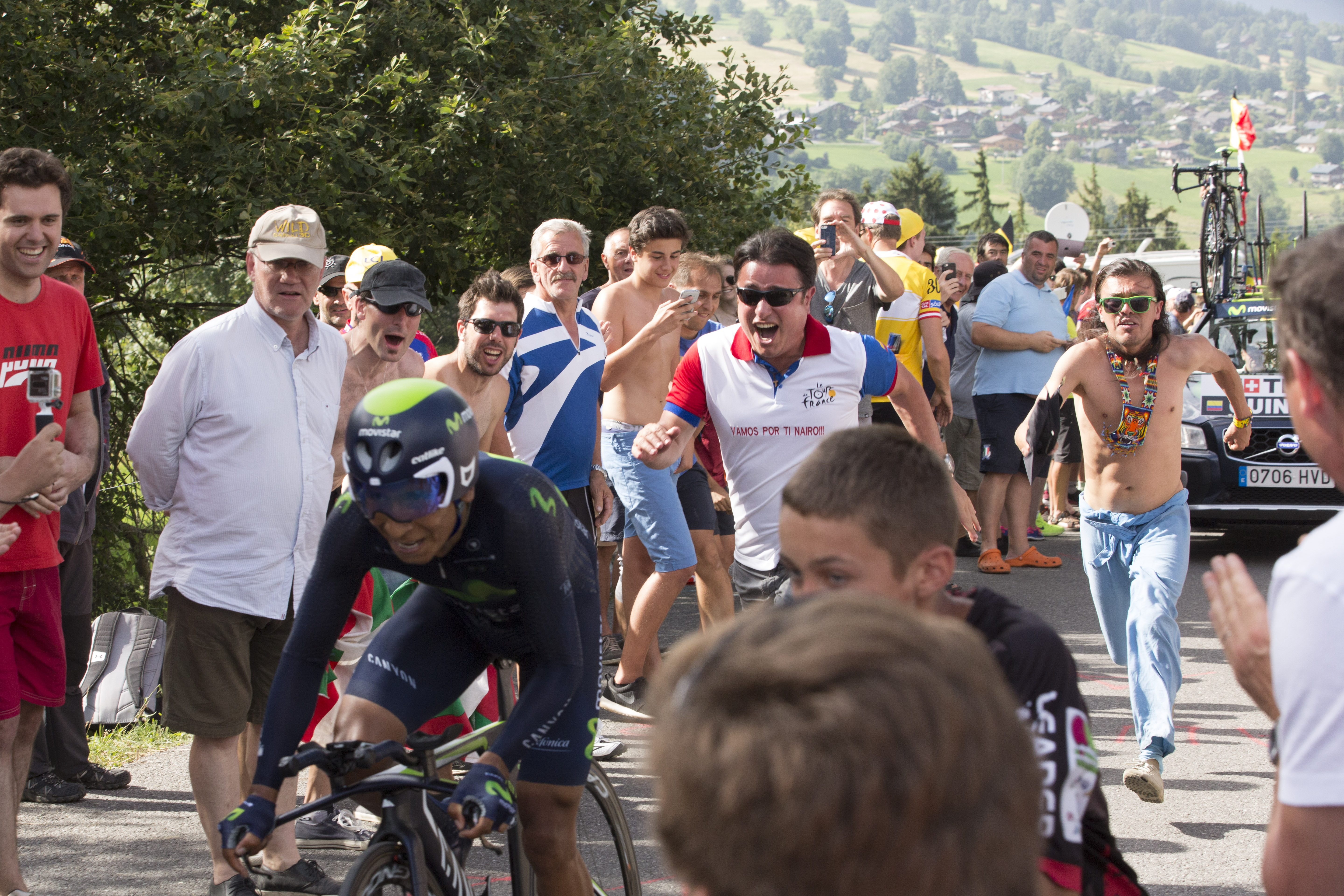 Stage 18 - Sallanches to Megève